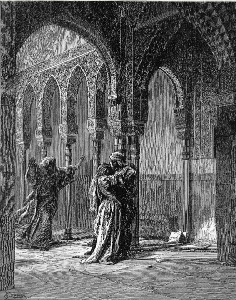 Zoraida falls in the Captive's arms by Gustave Doré (January 6, 1832 – January 23, 1883) a French artist, printmaker, illustrator and sculptor. Doré worked primarily with wood engraving.